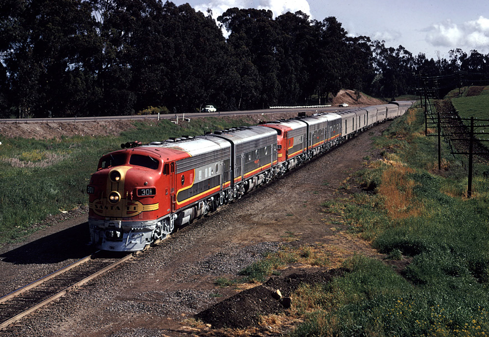 ATSF #301 with the westbound San Francisco Chief west of Hercules in April 1971